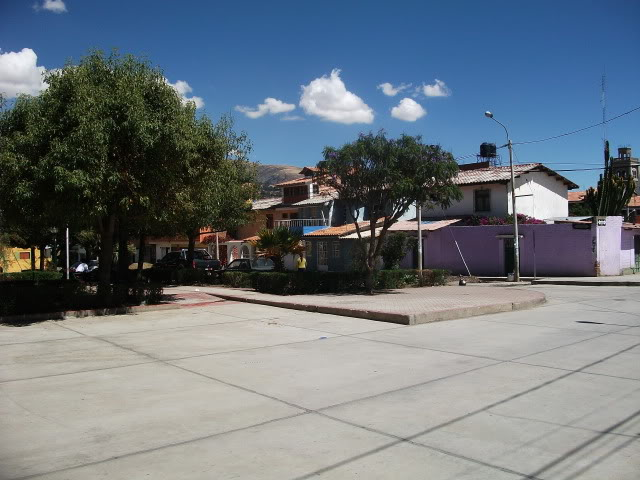 Neighbourhood of Belen Huaraz